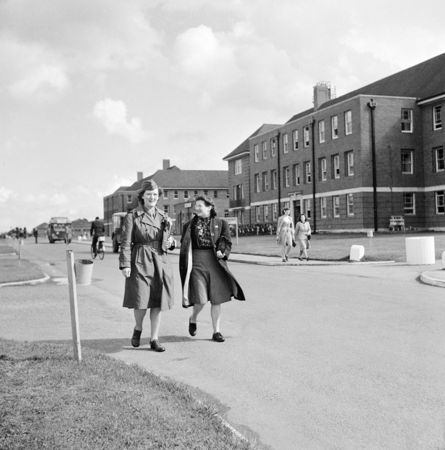 US Army University, Shrivenham, England, UK, 1945 Sergeant Doris Hogan (left) walks through the campus of the US Army University at Shrivenham, with her English friend Sally Solomons. Sally has worked for the US forces for over three years and is engaged to an American soldier. Sergeant Hogan is studying German at Shrivenham for eight weeks in preparation for her return to work in the US zone of occupation in Germany. According to the original caption, she goes on every available trip and aims to see as much of Britain as possible.